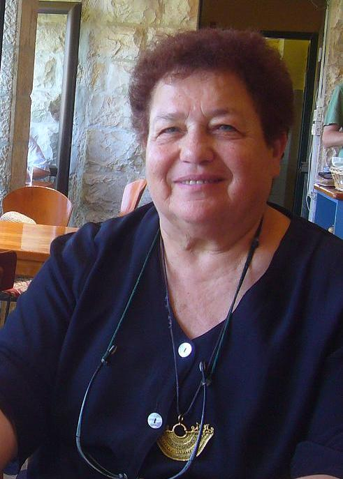 Ruth Kark, professor of history at the Hebrew University of Jerusalem.